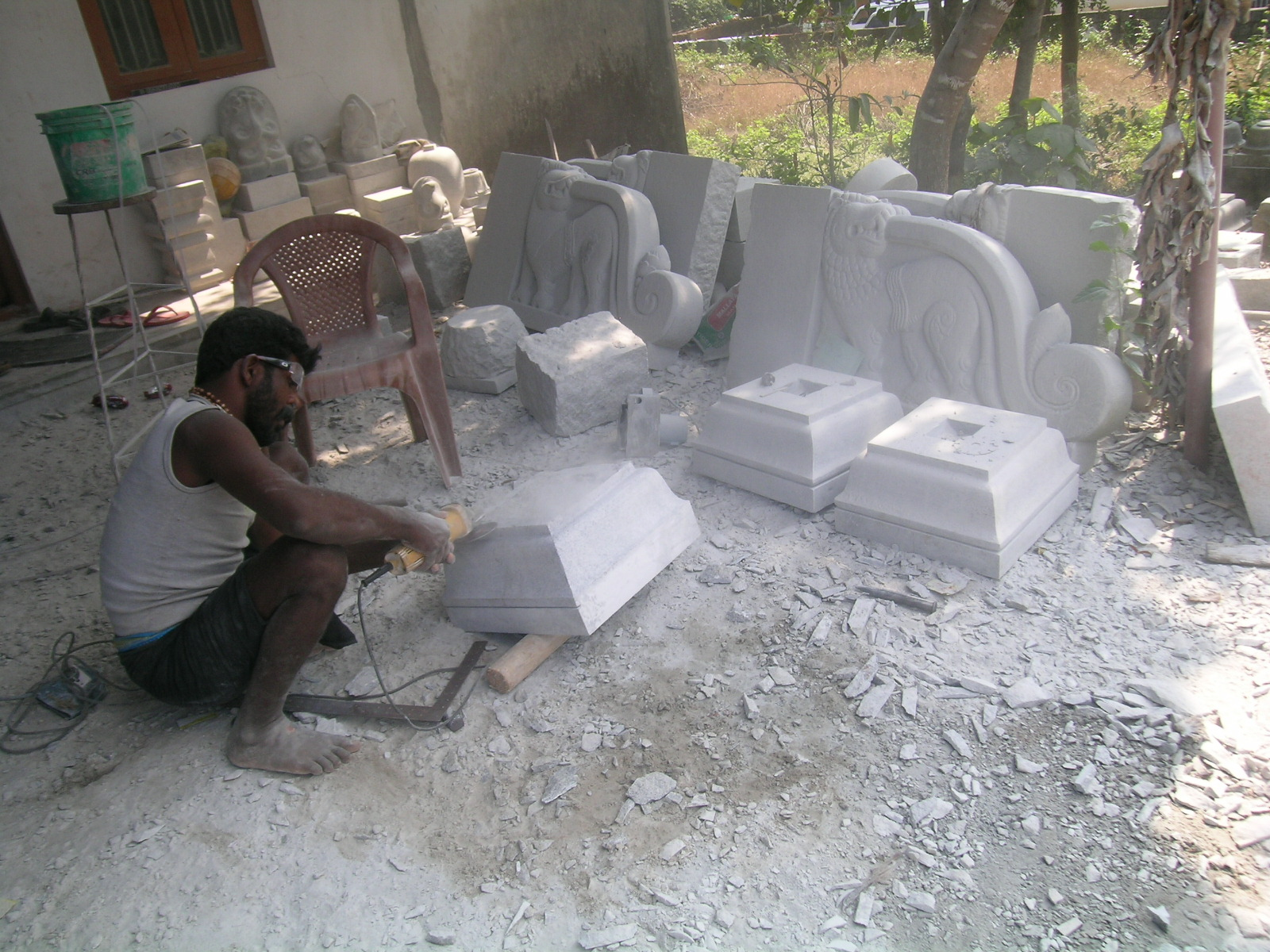 Stone carving is known here since ancient period